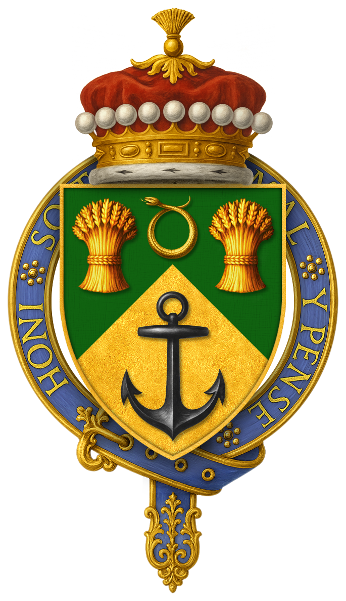 Garter-encircled coat of arms of Christopher Addison, 1st Viscount Addison, KG, as displayed on his Order of the Garter stall plate in St. George's Chapel, Windsor Castle.